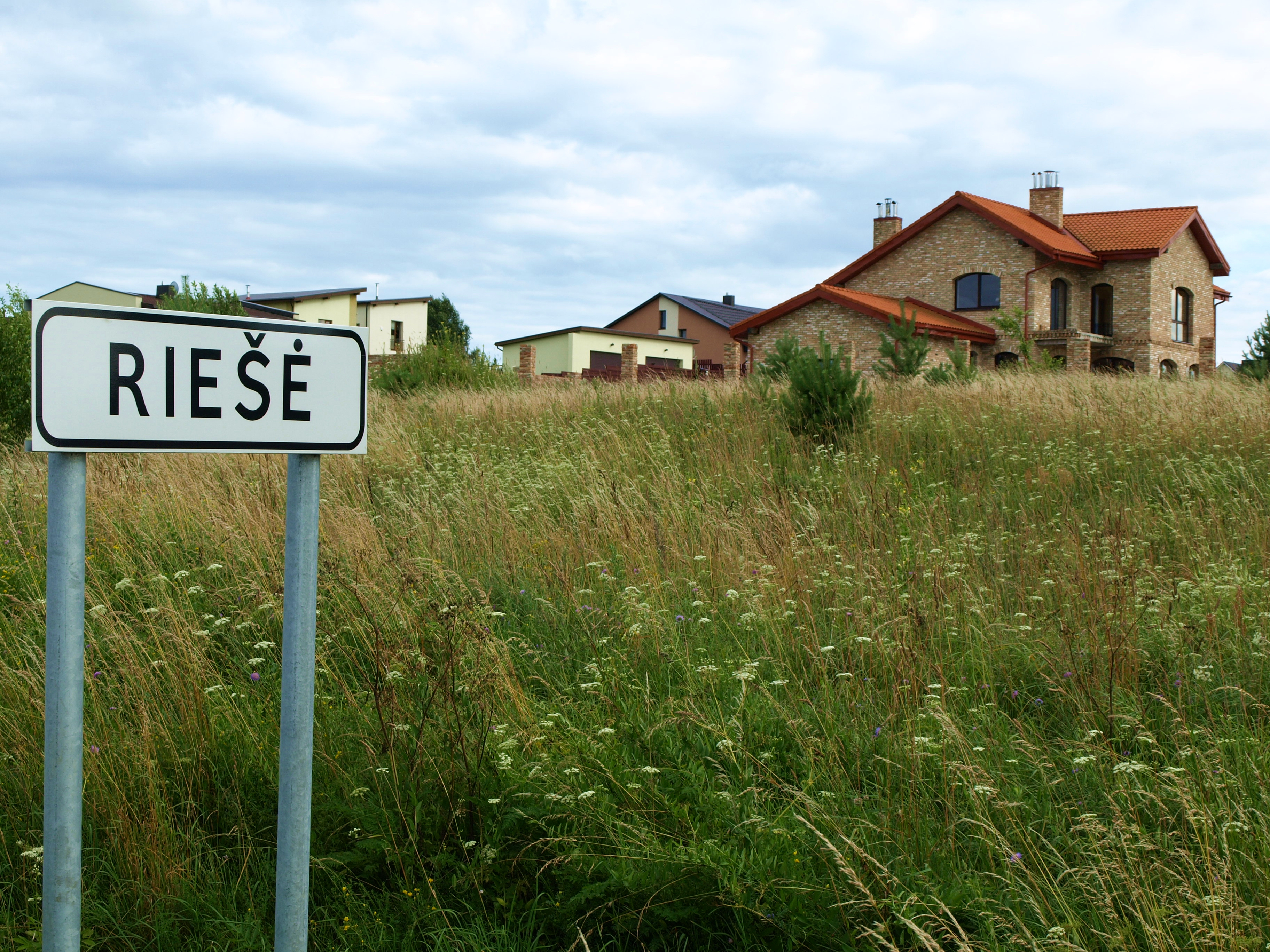 Riešė village, Vilnius district municipality, 2012 06